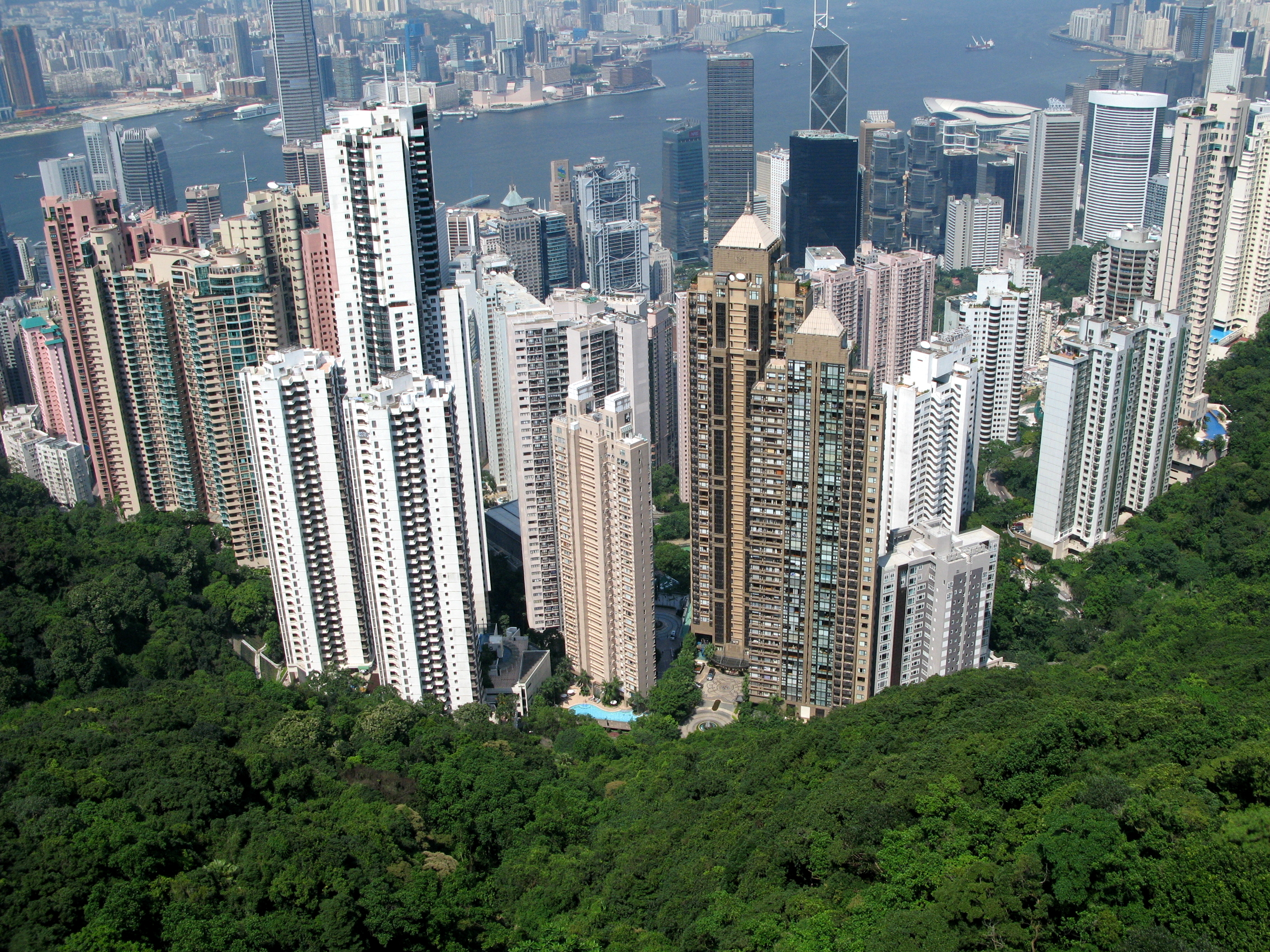 Middle Hill Residentional view from The Peak